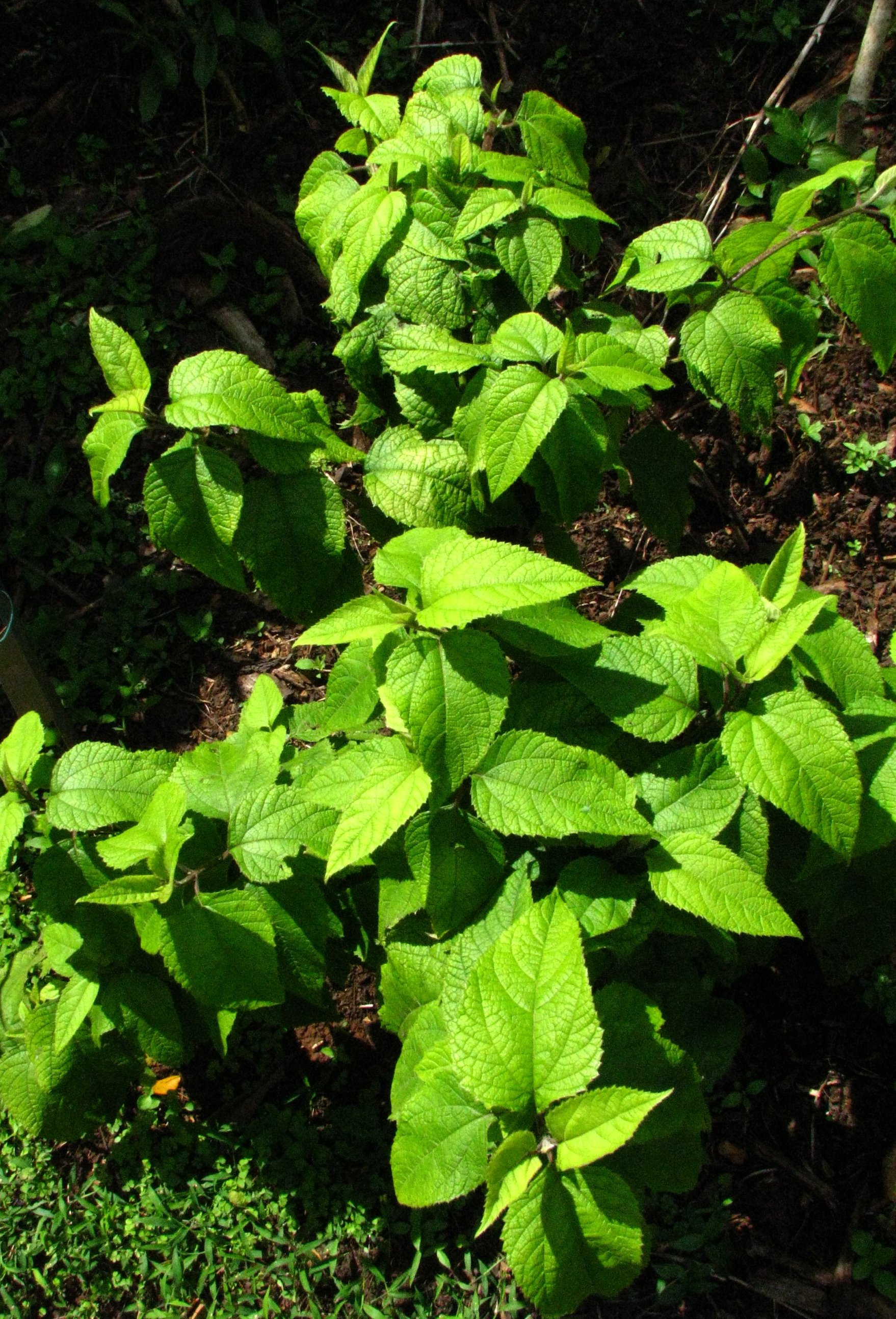 Nehe Asteraceae Endemic to the Hawaiian Islands (Kauaʻi only) Endangered Kauaʻi (Cultivated)